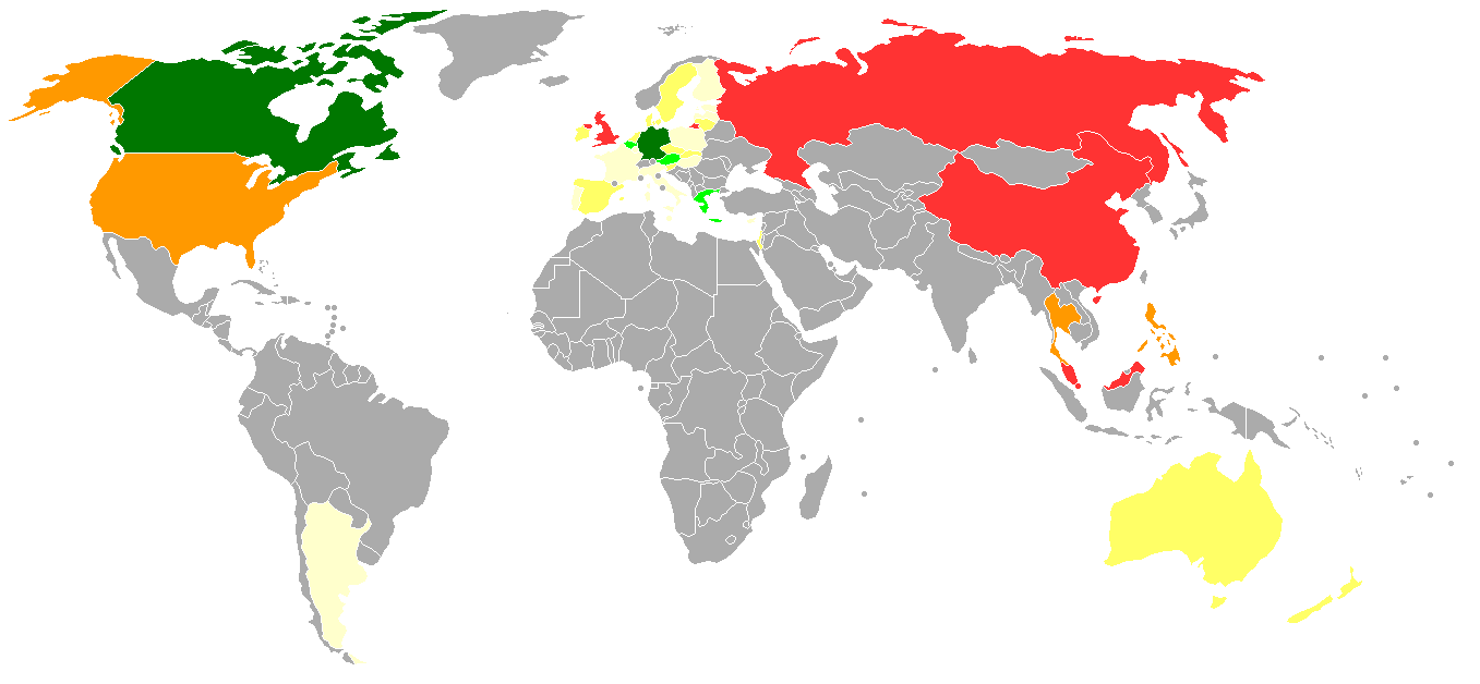 Privacy International 2006 privacy ranking; see Privacy International Consistently upholds human rights standards Significant protections and safeguards Adequate safeguards against abuse Some safeguards but weakened protections Systemic failure to uphold safeguards Extensive surveillance societies Endemic surveillance societies